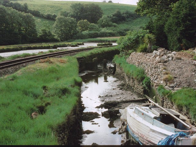 Looe Canal. The remains of a lock on the former Looe Canal. Although much of this canal was converted to form the Looe-Moorswater railway many remains can still be seen beside the railway.